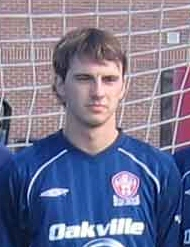 Marko Bedenikovic in 2005 with Oakville Blue Devils.